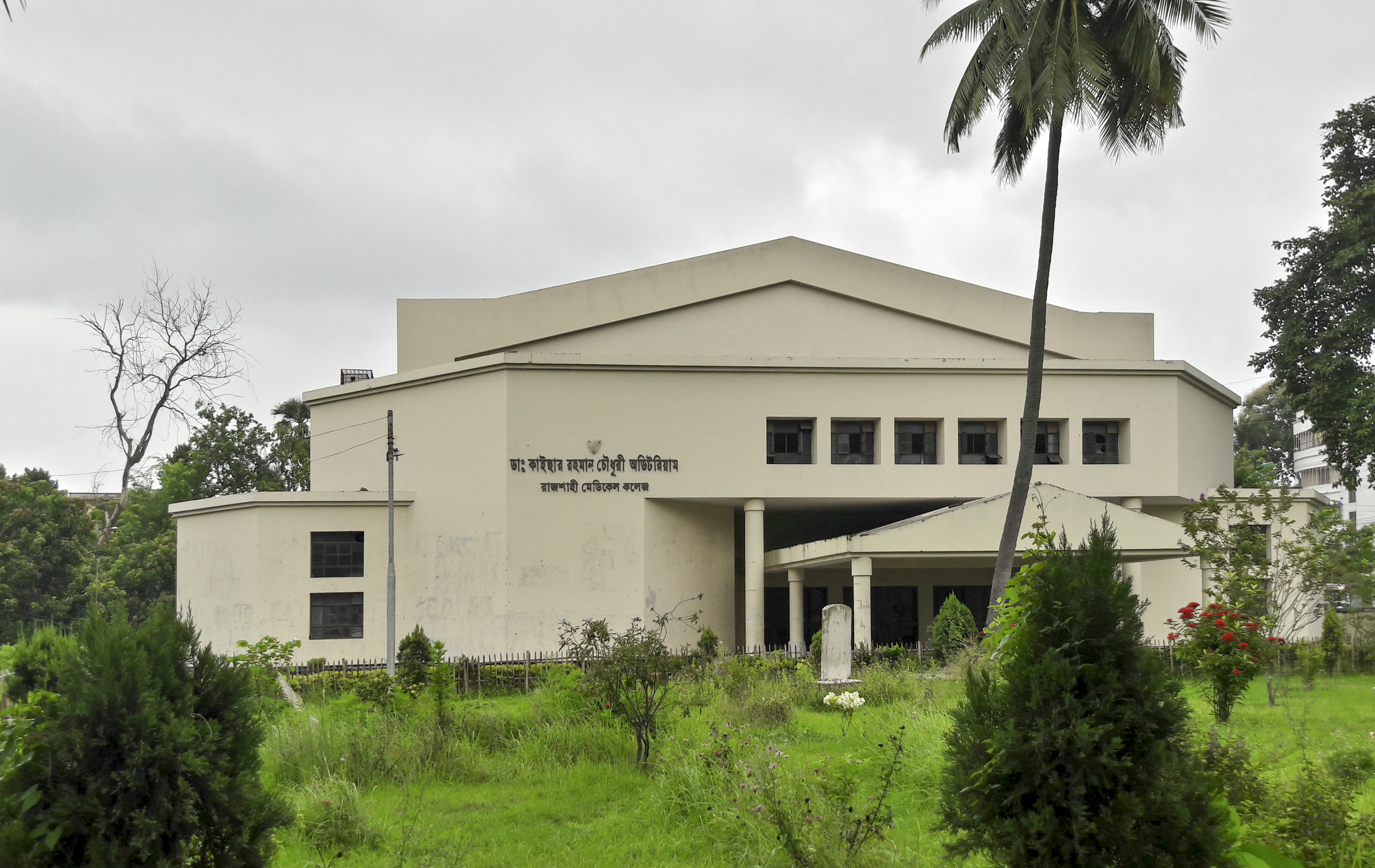 Dr. Kaisar Rahman Chowdhury Auditorium, Rajshahi Medical College is one of the luxurious auditorium in Rajshahi Bangladesh.